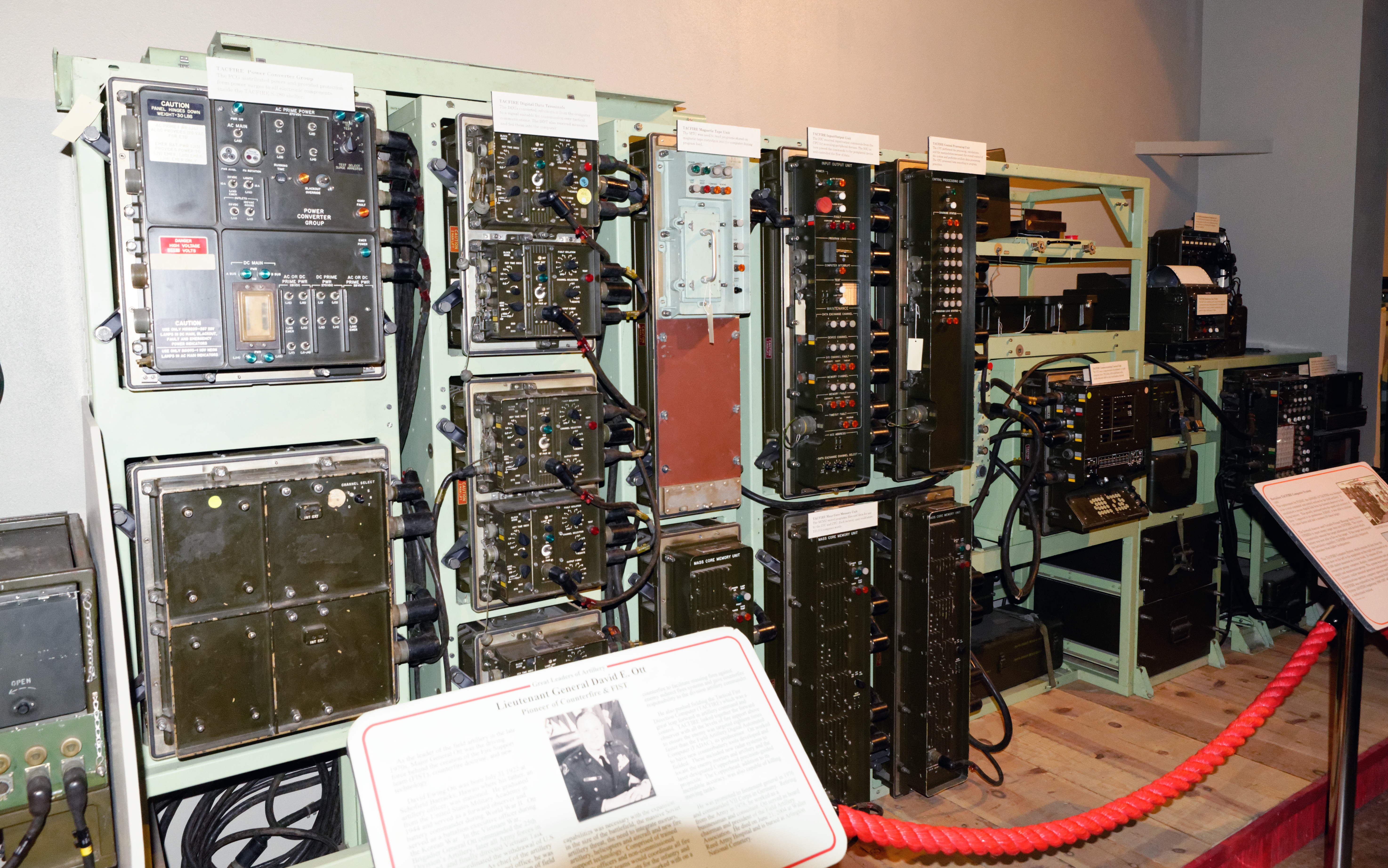 TACFIRE gun firing computer at the Field Artillery Museum, Fort Sill, Oklahoma, U.S.